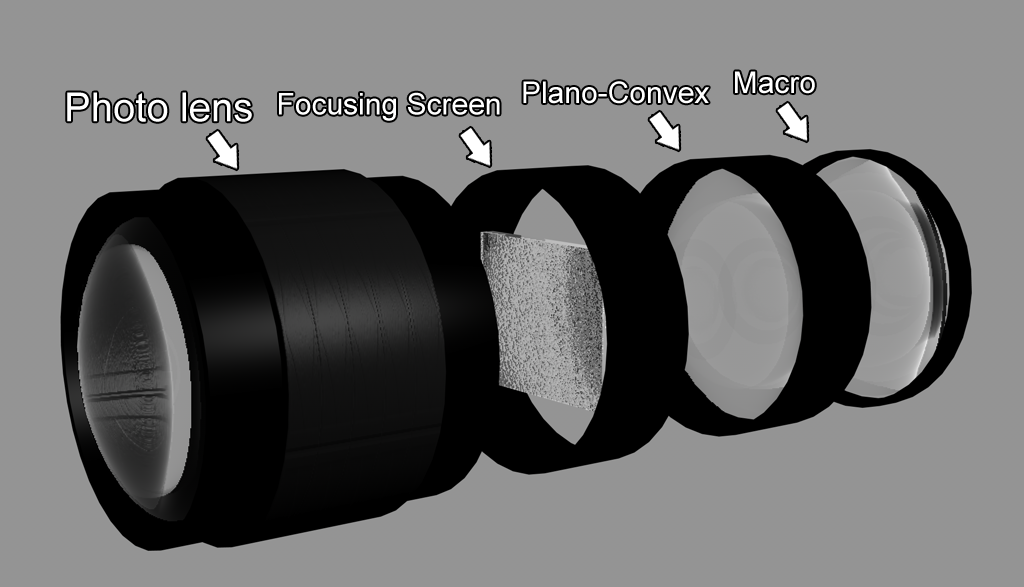 Created in Cinema 4D XL R7 by user funkbomb, myself.